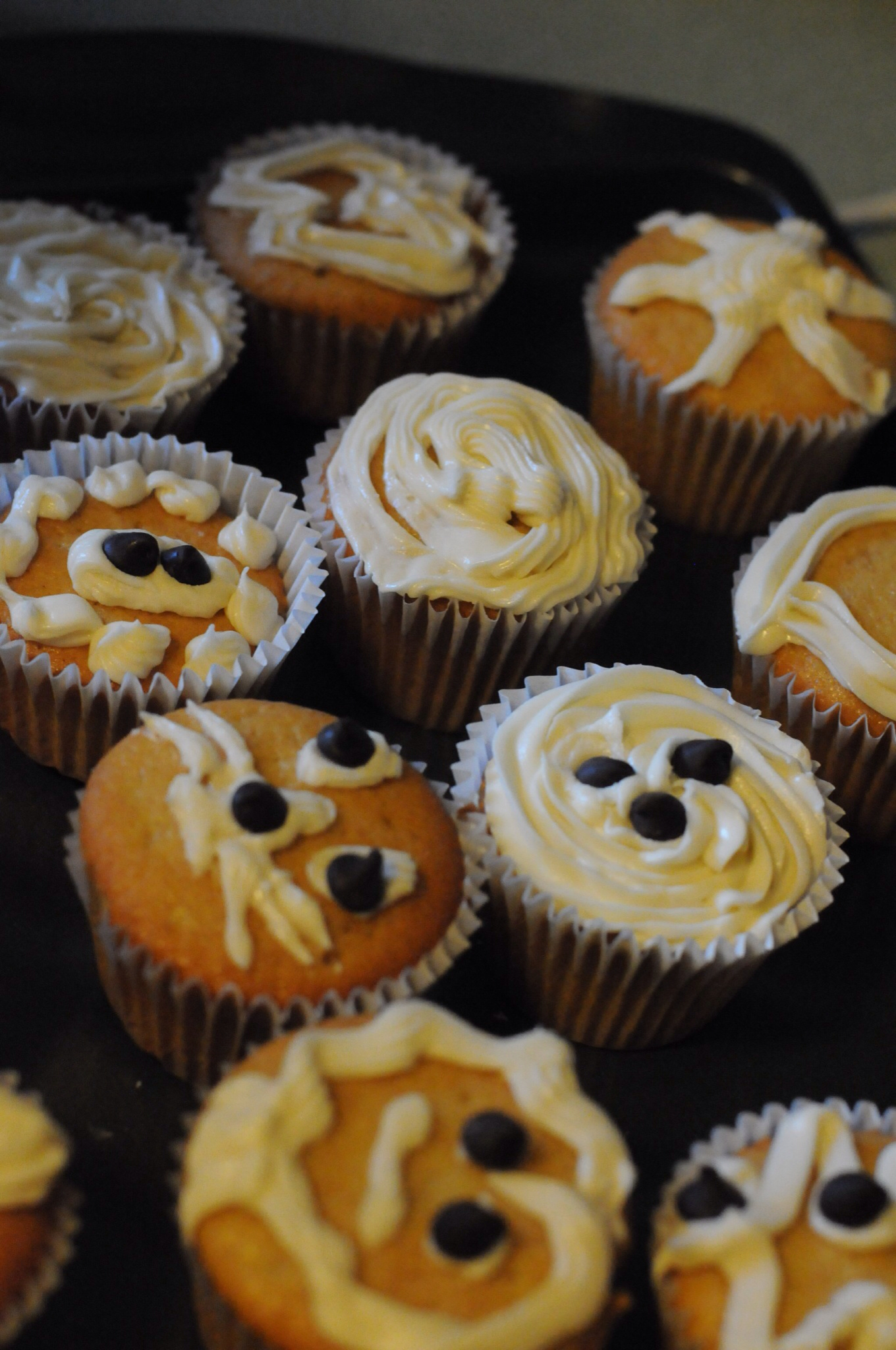 Cupcakes decorated with white icing by children.